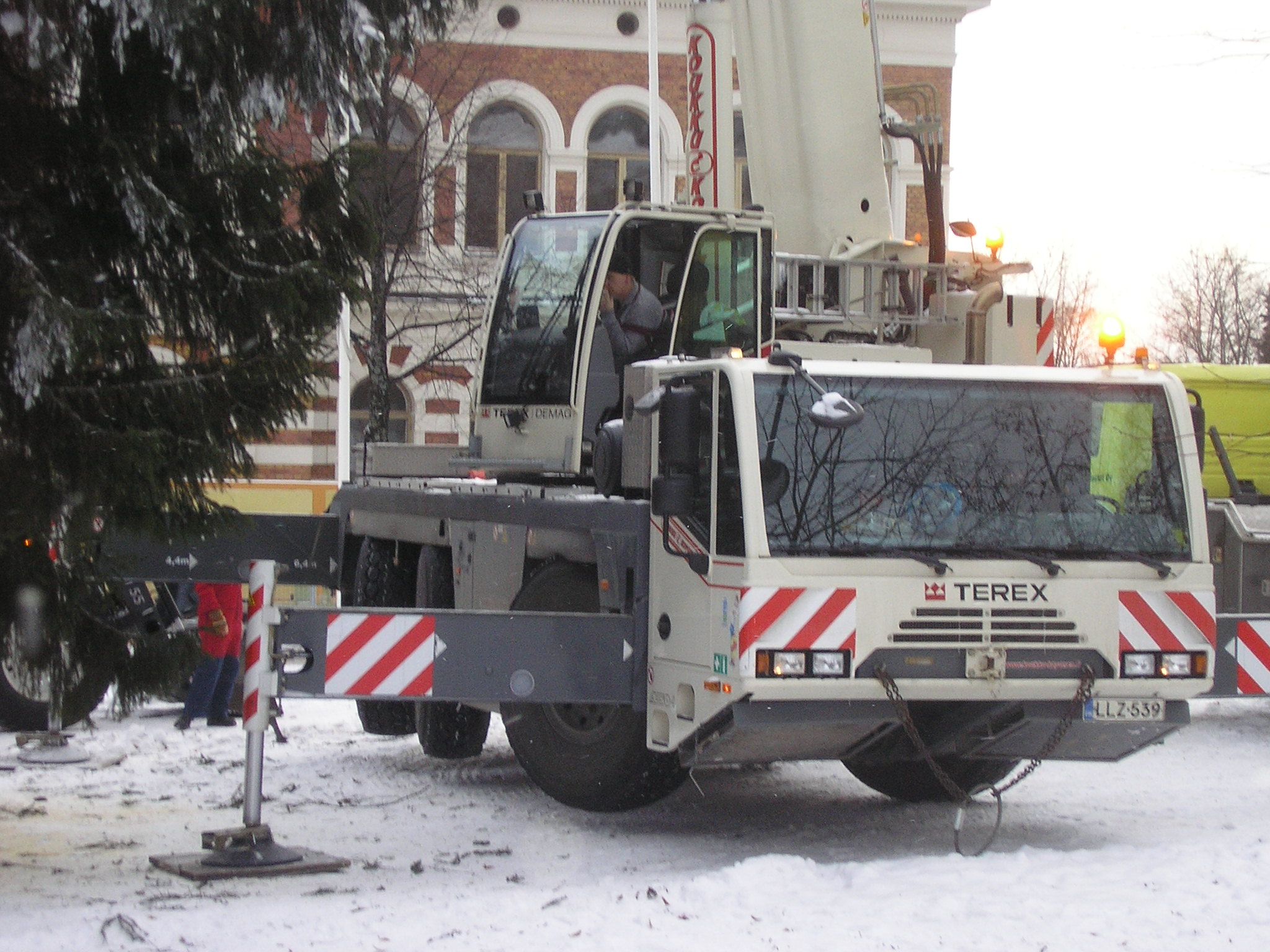 Demag/Terex crane truck in Jyväskylä, Finland